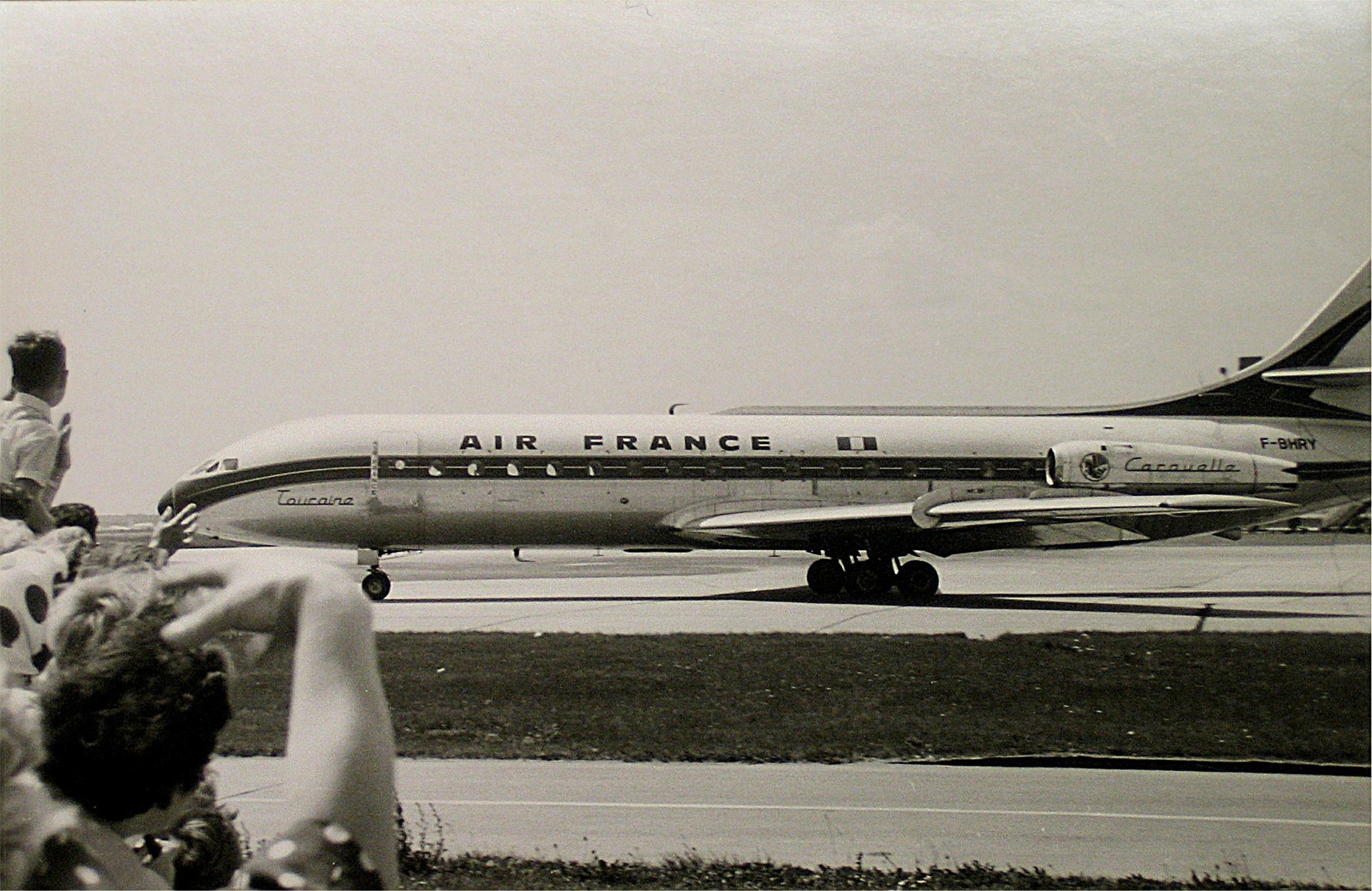 Air France Caravelle at Frankfurt am Main Airport